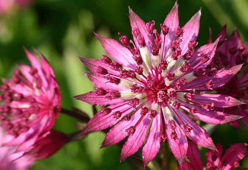 Astrantia (Masterwort Plant) india